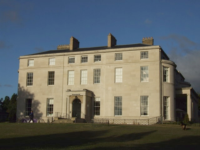 Mote House in Mote Park, Maidstone